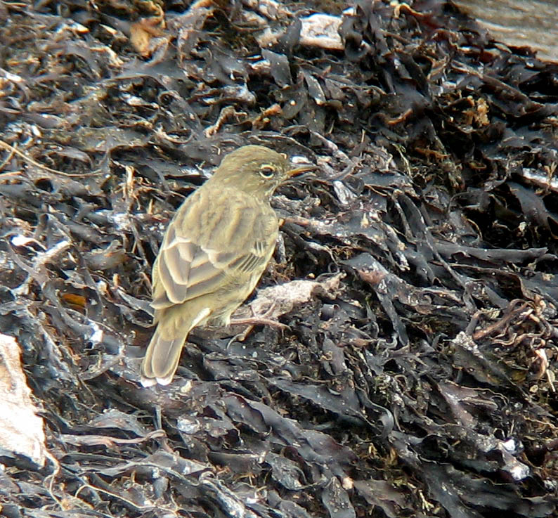 Rock Pipit Anthus petrosus, St Mary's Island, Northumberland, UK